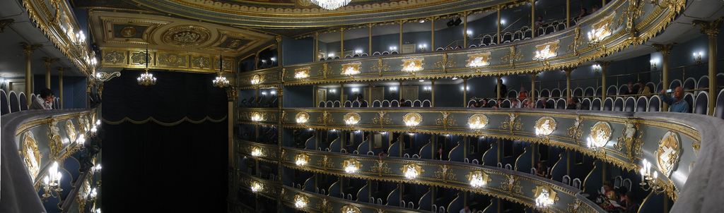 Inside of the Theatre of the Estates, Praha, Czech Republic. Panoramic image stitched with Hugin OS X.